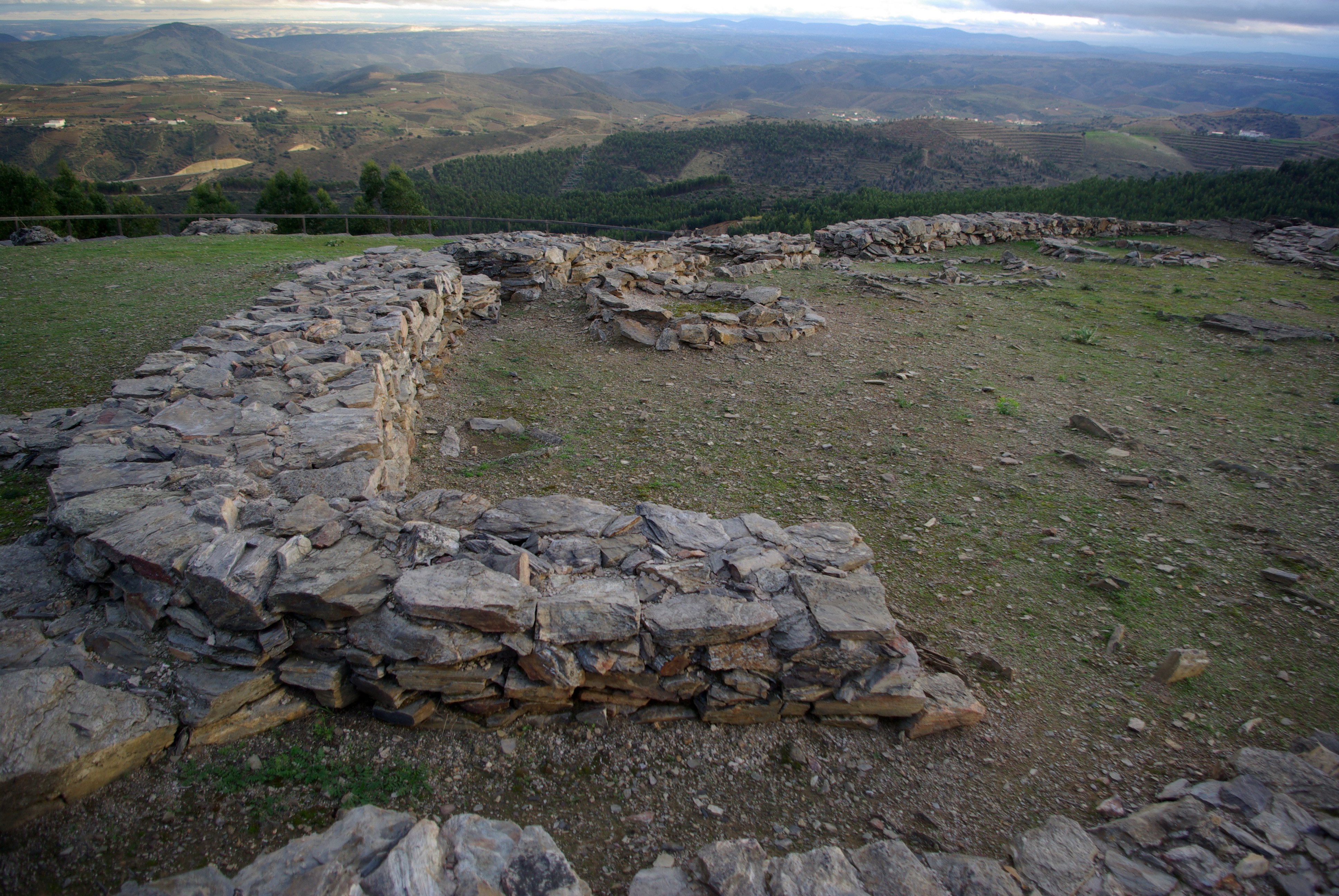 Hill fort of Castelo Velho in Freixo de Numão (Guarda, Portugal).